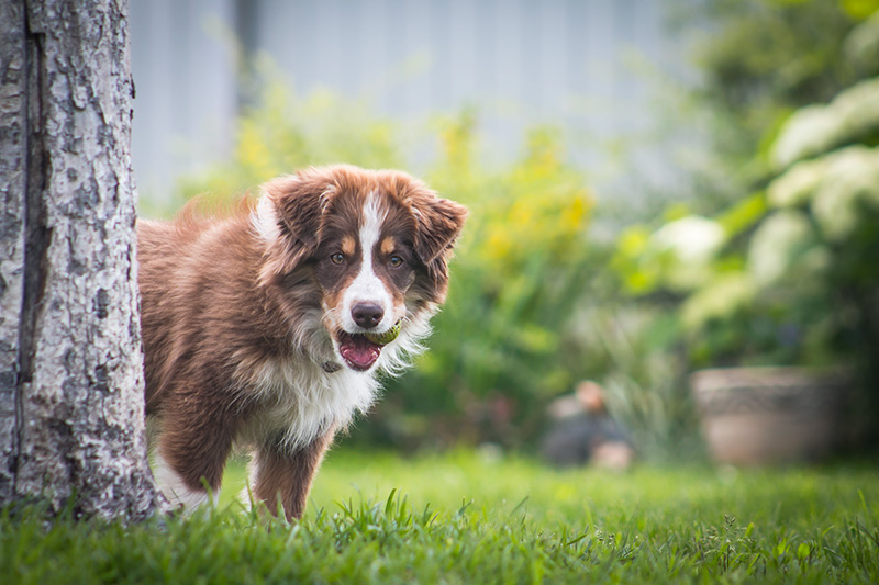 Miniature american shepherd puppy